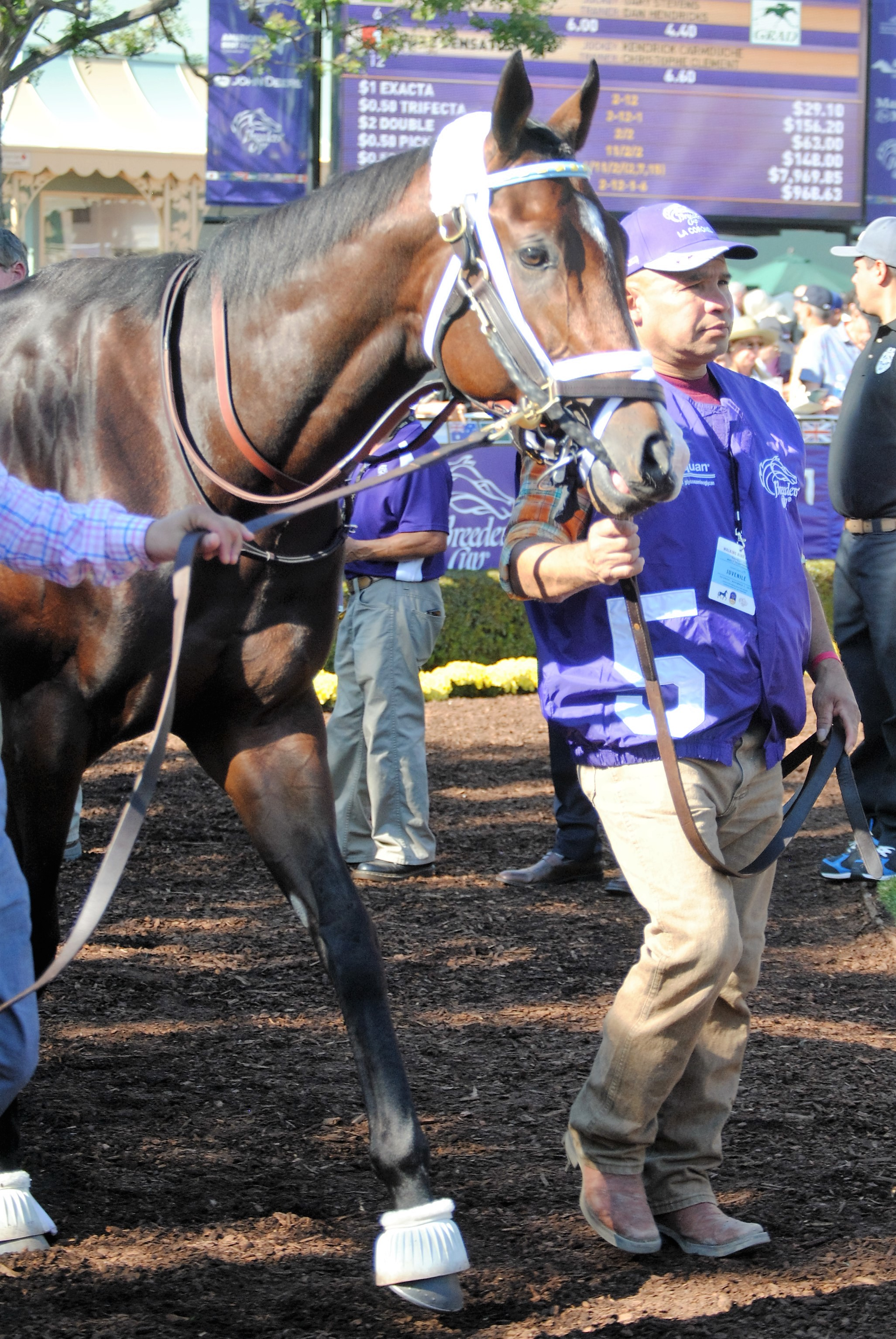 Classic Empire heading to saddling area for Juvenile